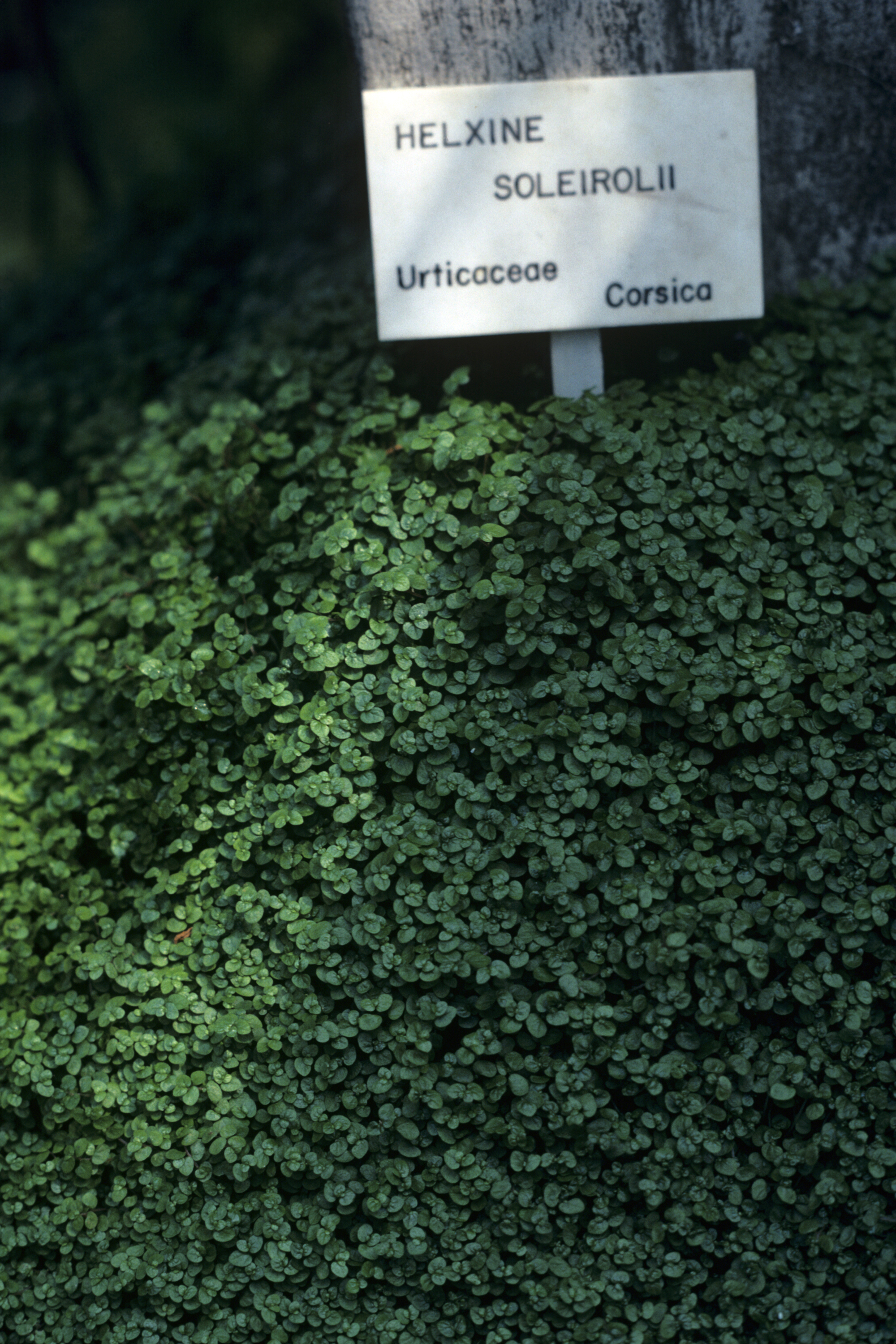 Soleirolia soleirolii also known as Helxine soleirolii